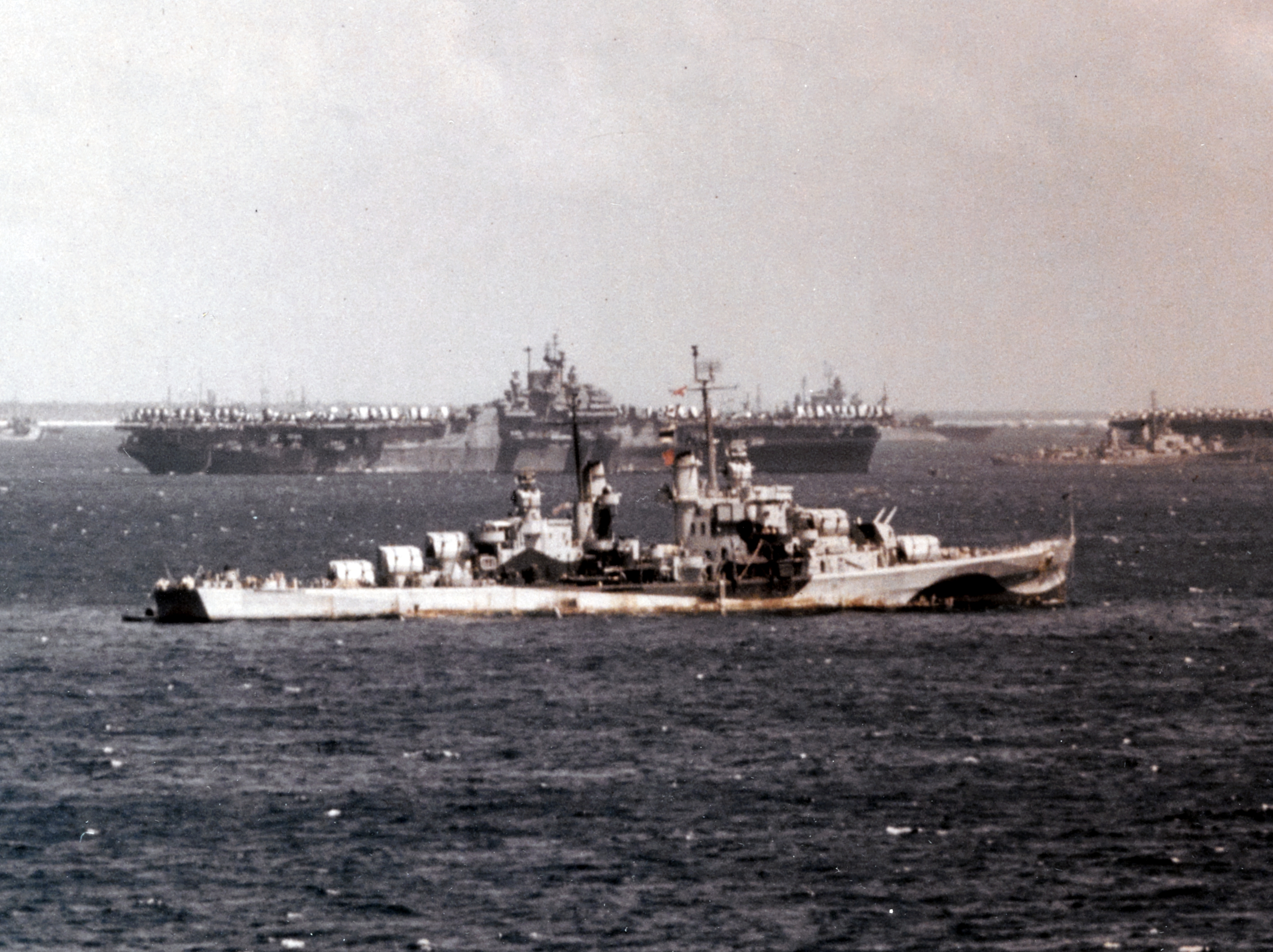 The U.S. Navy Atlanta-class cruiser USS Flint (CL-97), probably at Ulithi Atoll, circa late March 1945, as the U.S. Fifth Fleet was departing for the Okinawa operation. Flint´s camouflage is Measure 33, Design 22d. The photo was taken from the battleship USS West Virginia (BB-48). Note the two Essex-class carriers in the background.